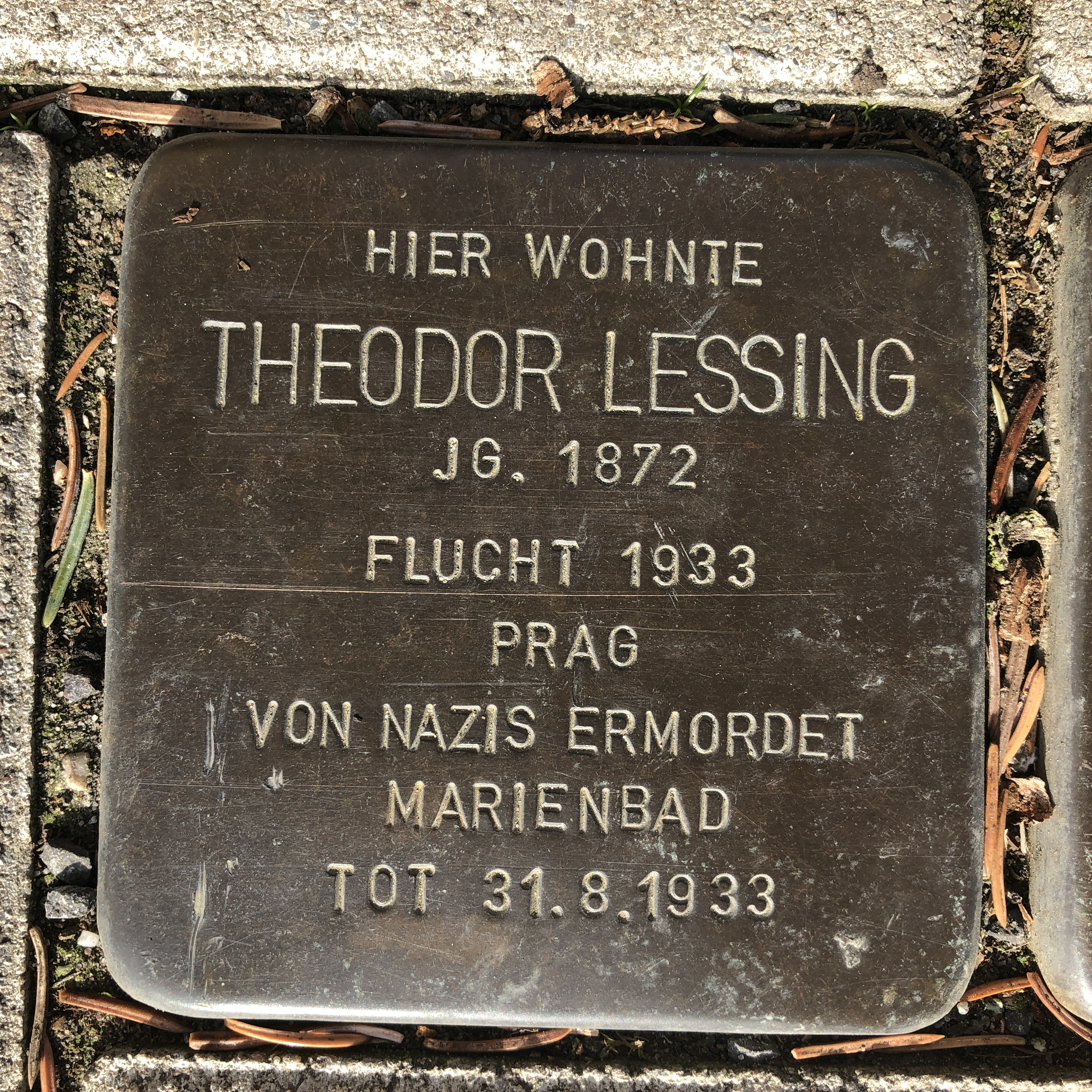 Stolperstein dedicated to Theodor Lessing in Hanover. Inaugurated on 6 October 2011. Inscription (literal translation): Here lived Theodor Lessing born 1872 escape 1933 Prague killed by Nazis Marienbad dead 31.08.1933